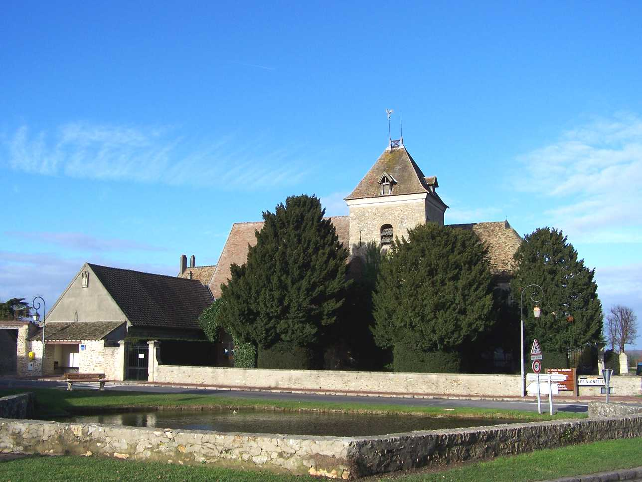 Church of Thoiry (Yvelines, France)